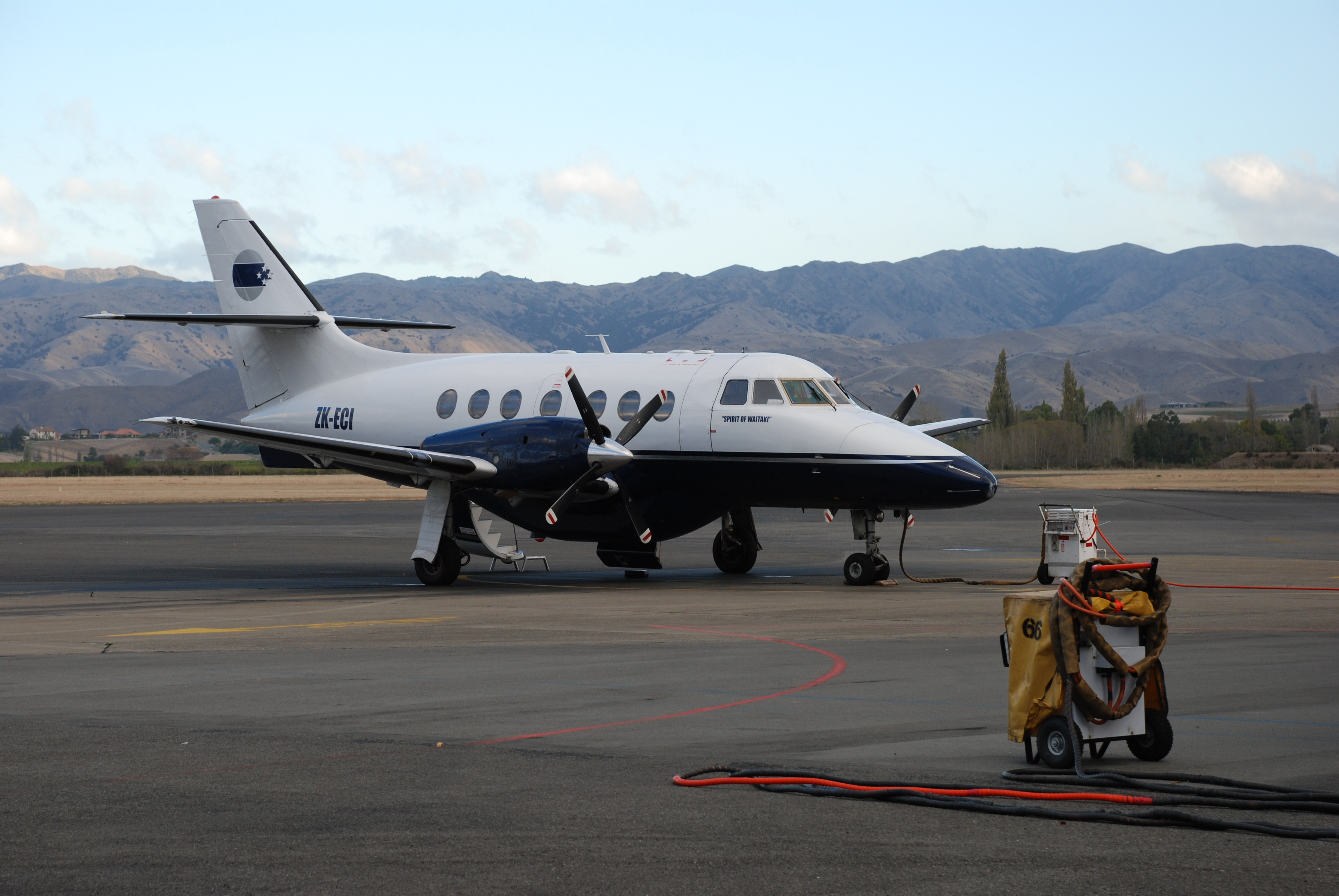 This aircraft is a survivor of the collapse of Origin Pacific. It is now currently operated by National Airways on behalf of air New Zealand, primarily on the experimental Christchurch to Oamaru route - hence the name 'Spirit of Waitaki' seen here. In this shot the aircraft is operating a blenheim to Christchurch flight. MSN .946 ex G-31-946, N946AE) Was first flown on September 29, 1991. Exported to the US, it left Prestwick on October 29, 1991. The aircraft was leased to West Wing Airlines in California, and then Air Virginia. It arrived in Wellington on February 26, 1999, and was registered to Rex Aviation (NZ) on March 24. It has had four different New Zealand registrations , arriving originally as ZK-REY of ansett NZ.